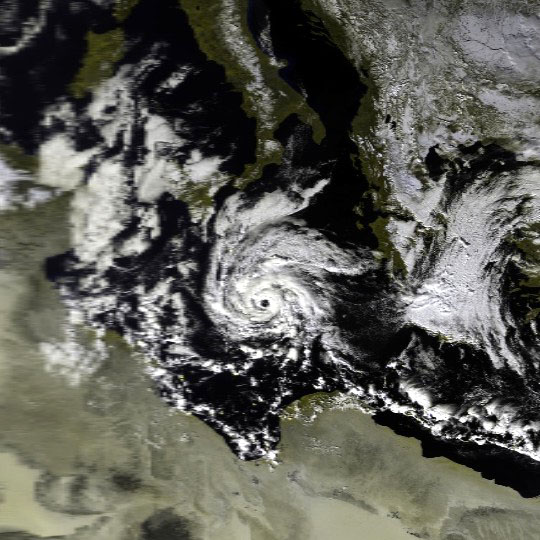 This image shows a cyclone in the Mediterranean Sea on January 16, 1995 at 1004 UTC. This image was produced from data from NOAA-14, provided by NOAA.